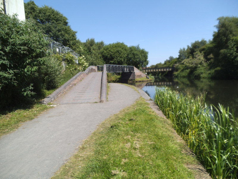 Junction Footbridge. The Stourbridge Canal feeder passes under the disused railway bridge in the distance, and the stub of the Stourbridge Extension Canal turns under the towpath bridge.